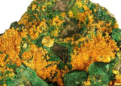 Malachite, Tyuyamunite Locality: Musonoi Mine, Kolwezi, Western area, Katanga Copper Crescent, Katanga (Shaba), Democratic Republic of Congo (Zaïre) (Locality at ) Size: small cabinet, 8.9 x 8.7 x 8.1 cm Tyuyamunite and Malachite Beautiful, sharp sub-mm crystals of Tyuyamunite richly cover a carpet of underlaying velvety malachite, making this one of the richest AND most pretty examples of the species I have seen on the market. The display area is 5 x 5 cm, on matrix. Though small by some standards, the crystals are actually rather large and sharp for the species and leap out under a loupe.